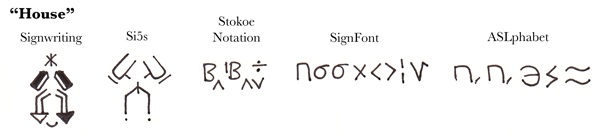 Brief comparison of different American Sign Language Writing Systems as of 2013.